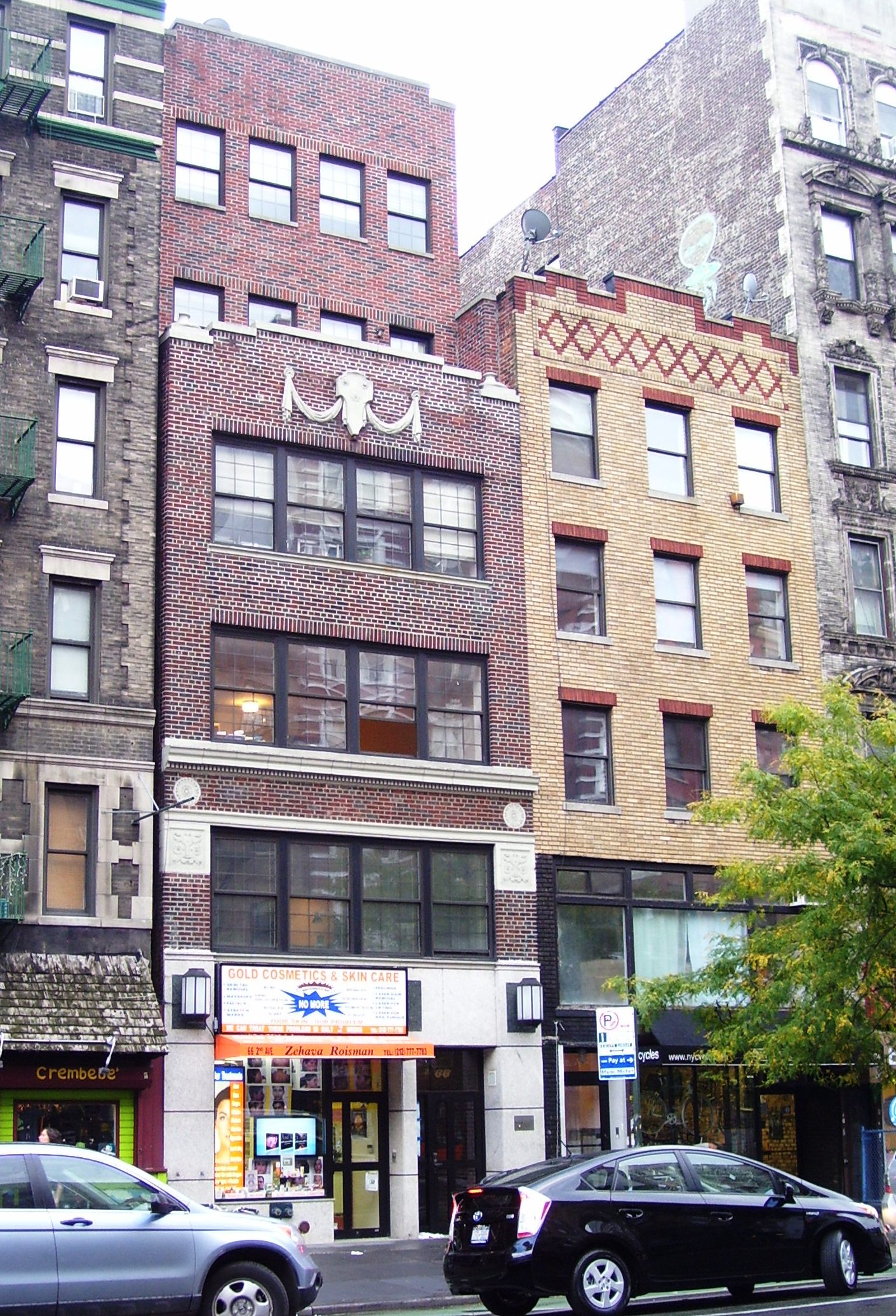 The bulding at 66 Second Avenue (left) between East 3rd and 4th Street in the East Village neighborhood of lower Manhattan, New York City was once the entrance to a 5,000 seat theatre. Opened in 1926-27 as the Public Theatre, and designed by David M. Oltarsh & H. Craig Severance in the Clasical Revival style, it presented Yiddish films and Yiddish vaudeville at a time when Second Avenue was known as the "Jewish Rialto". By 1953 it was a Hispanic movie theater, the Antillas. In 1957 it was rechristened the Phyllis Anderson Theatre and presented Yiddish theatre and Off-Broadway plays. In the '60s and '70s, it presented rock and roll and experimental theater. In 1977, it became the CBGB Second Avenue Theatre. The theatre itself was primarily around the corner on the south side of 4th Street. It was partly demolished in 1990, and in 1997 the remainder was turned into apartments. The building next door at 64 Second Avenue (right) was built as a rowhouse c. 1844-45, and a new Arts & Crafts facade was designed by Louis A. Sheinart in 1927. Both buildings are located within the East Village/Lower East Side Historic District (Source: "East Village/Lower East Side Historic District Designation Report" and Cinema Treasures)